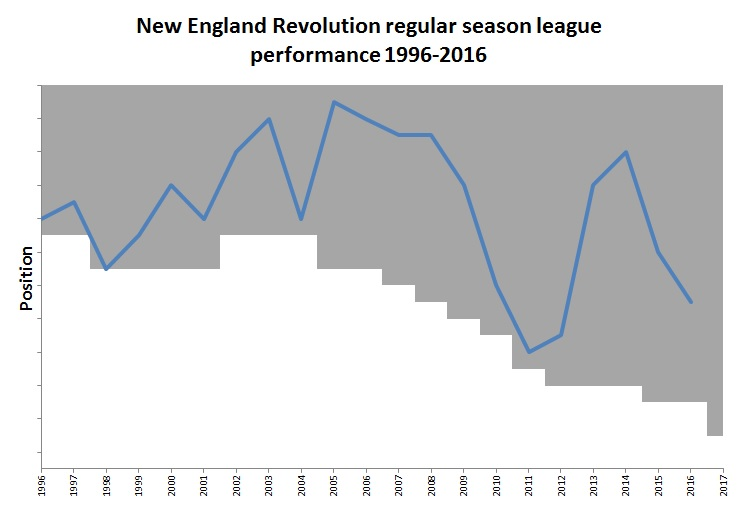 Chart showing the progress of the New Revolution in MLS